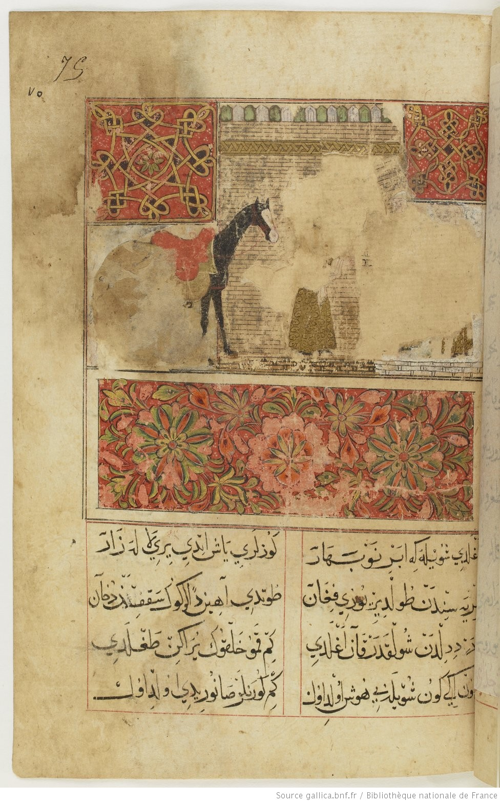 Ahmedi, Iskender-name, BNF, Turc 309